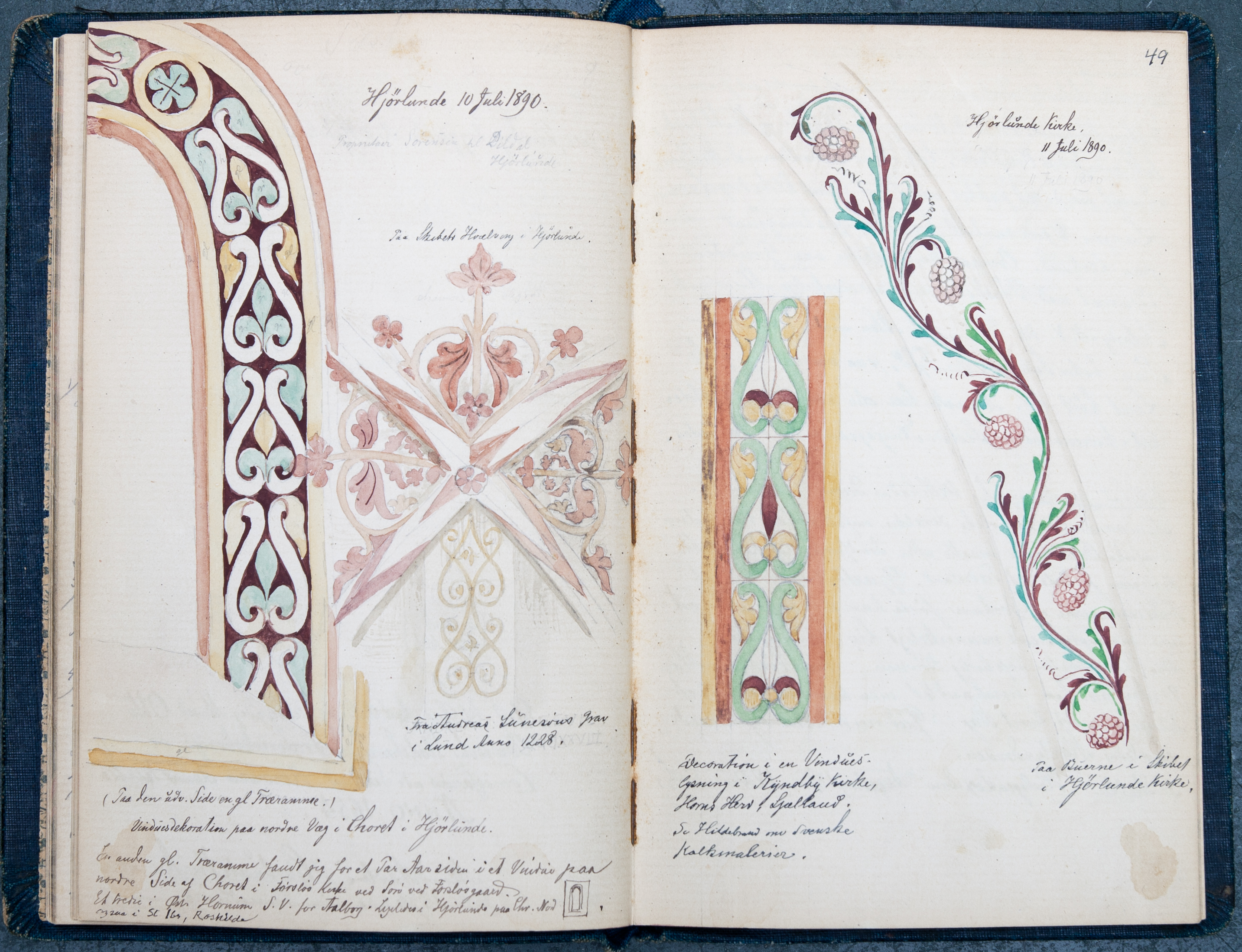 Details from Jacob Kornerup notebooks, housed in the archives of the Danish National Museum